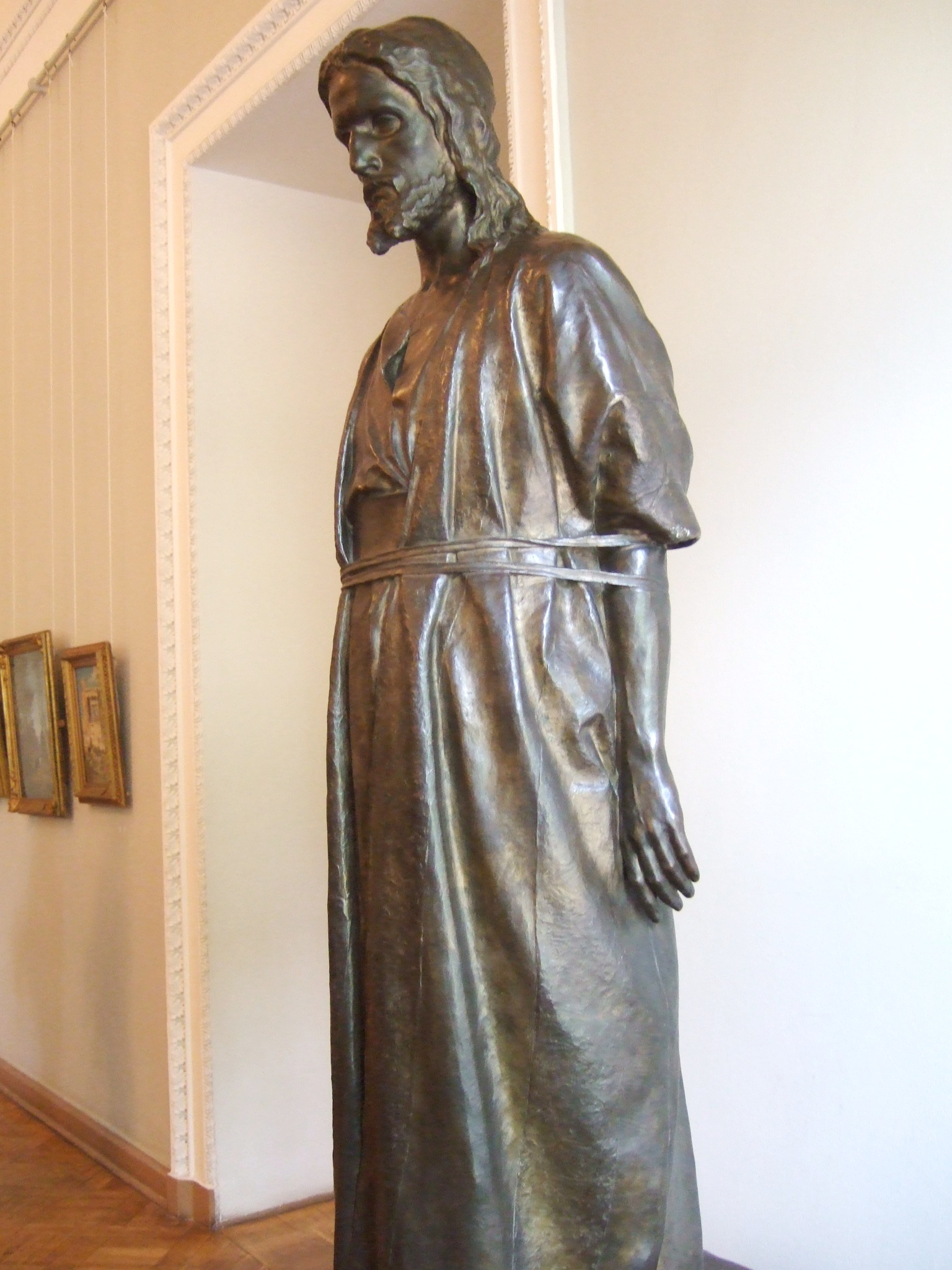 Christ before the people. Taken in the State Russian Museum.